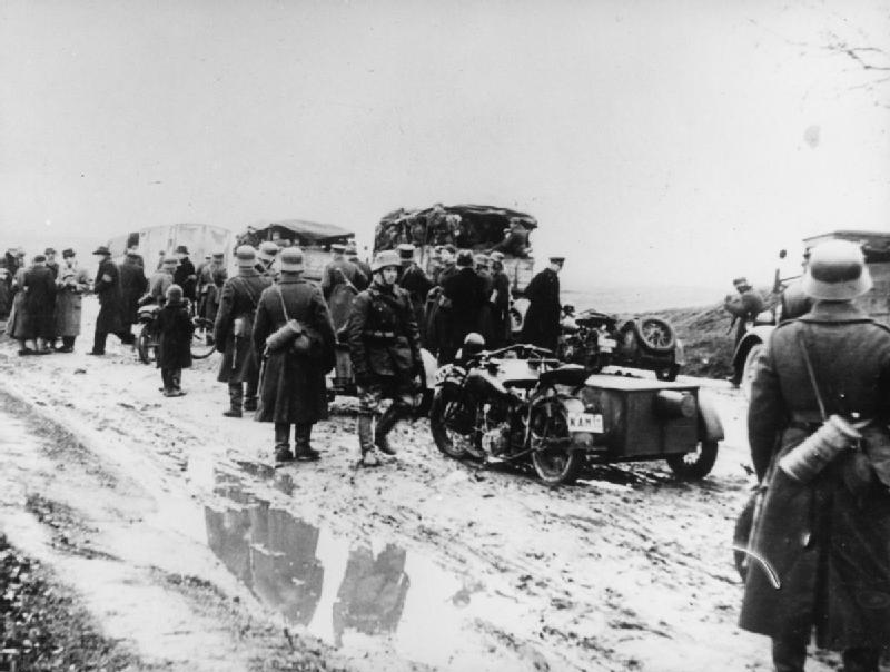 The Nazi-soviet Invasion of Poland, 1939 Lithuanian motorised troops advancing towards Polish city of Wilno (Vilnius) after it was handed over to Lithuania by occupying Soviet forces. Wilno was a subject of a serious conflict between Poland and Lithuania before war. Lithuania was subsequently annexed by the Soviet Union just 8 months later, in June 1940.